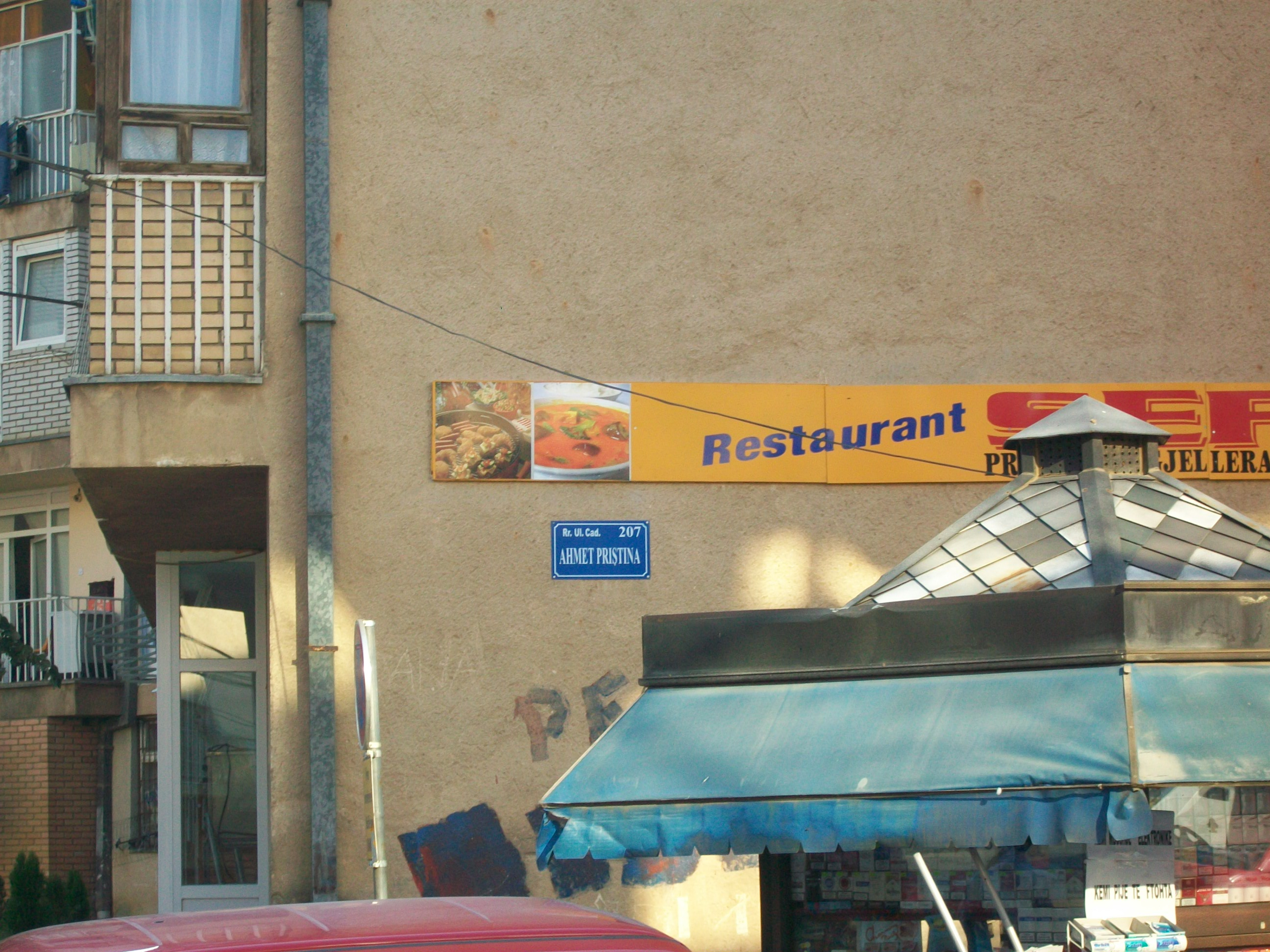 Pictures from Prizren Kosovo